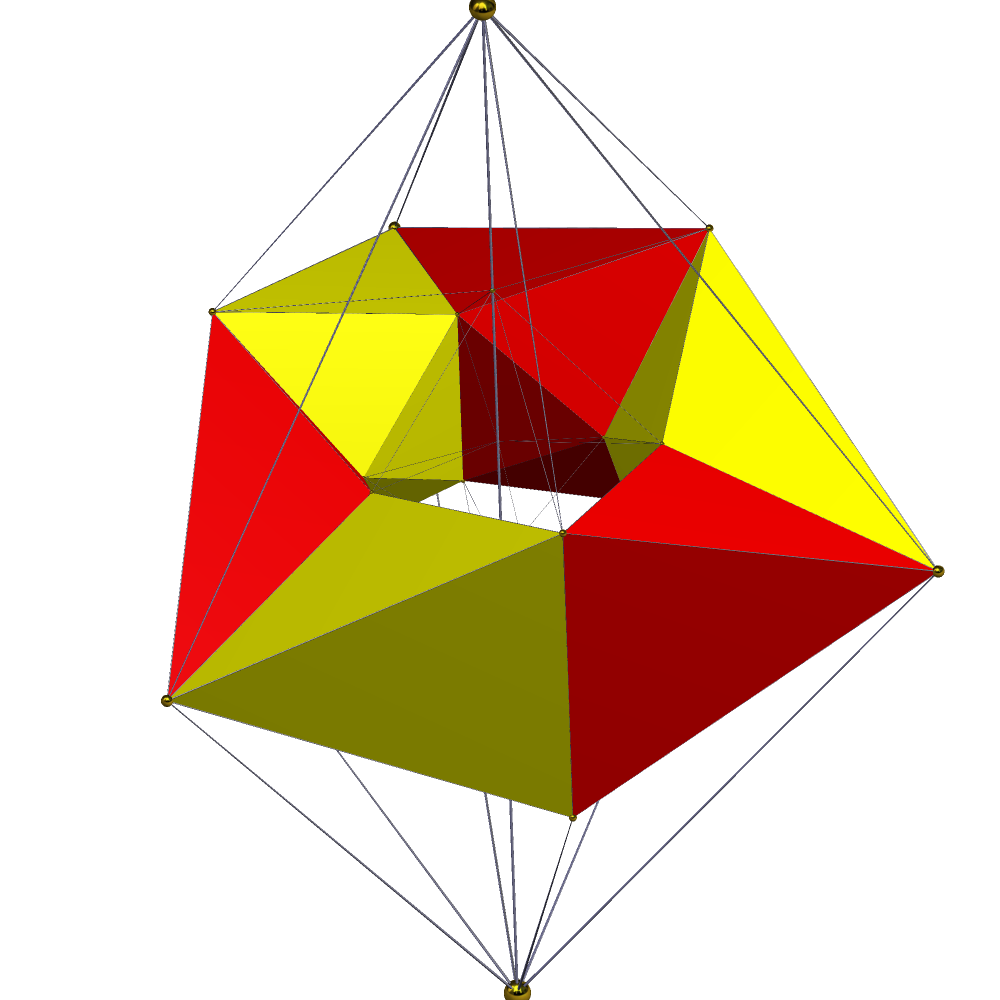 24-cell face-stacked ring of 6 octahedra